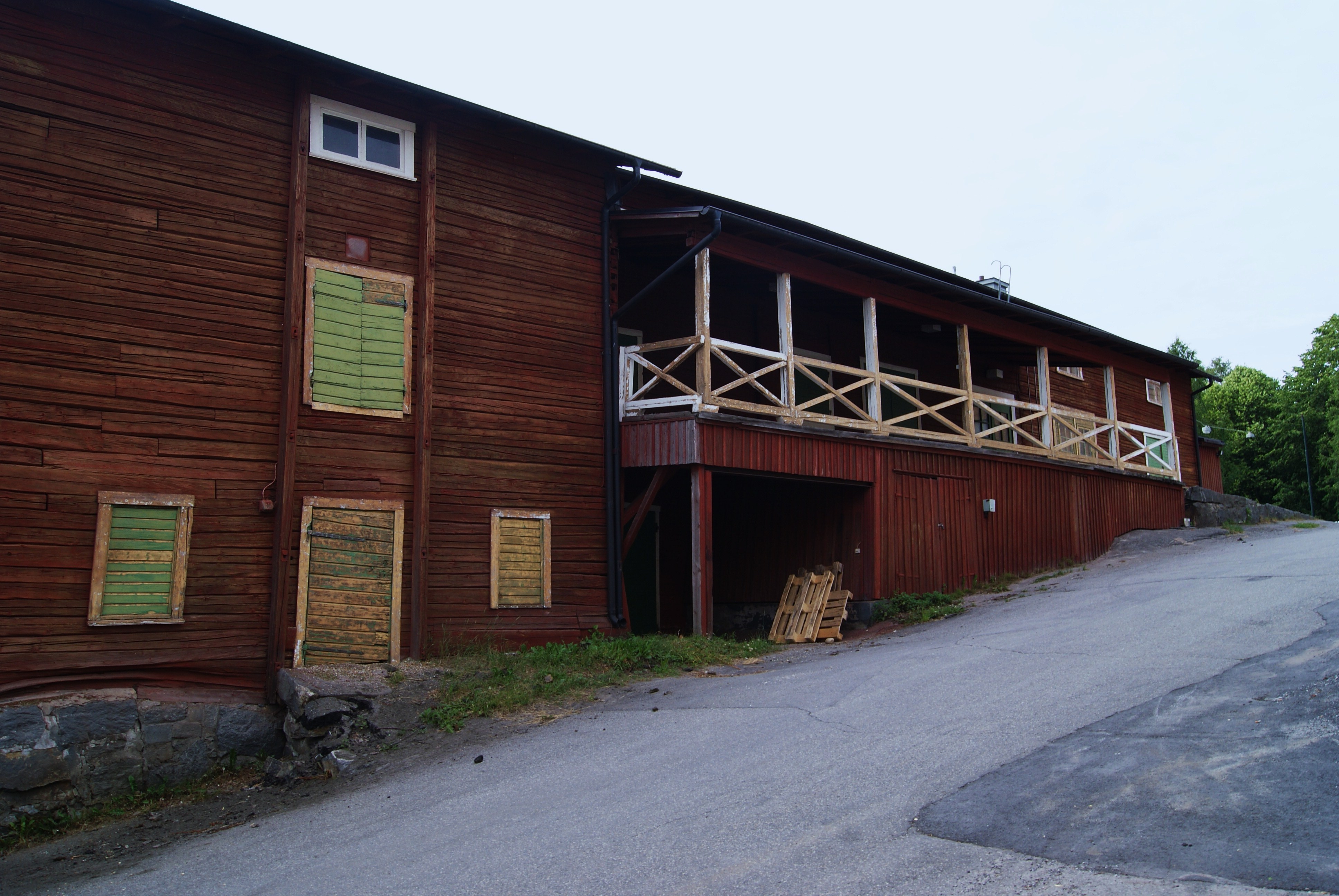 The long side of the building von Ahnska magasinet (towards the yard).